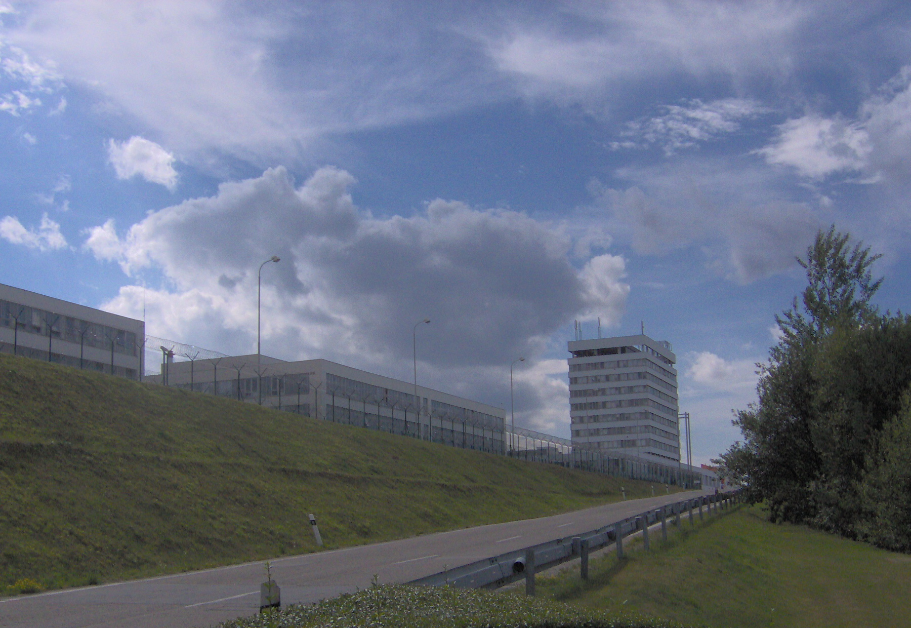 View of buildings of Temelín Nuclear Power Station.